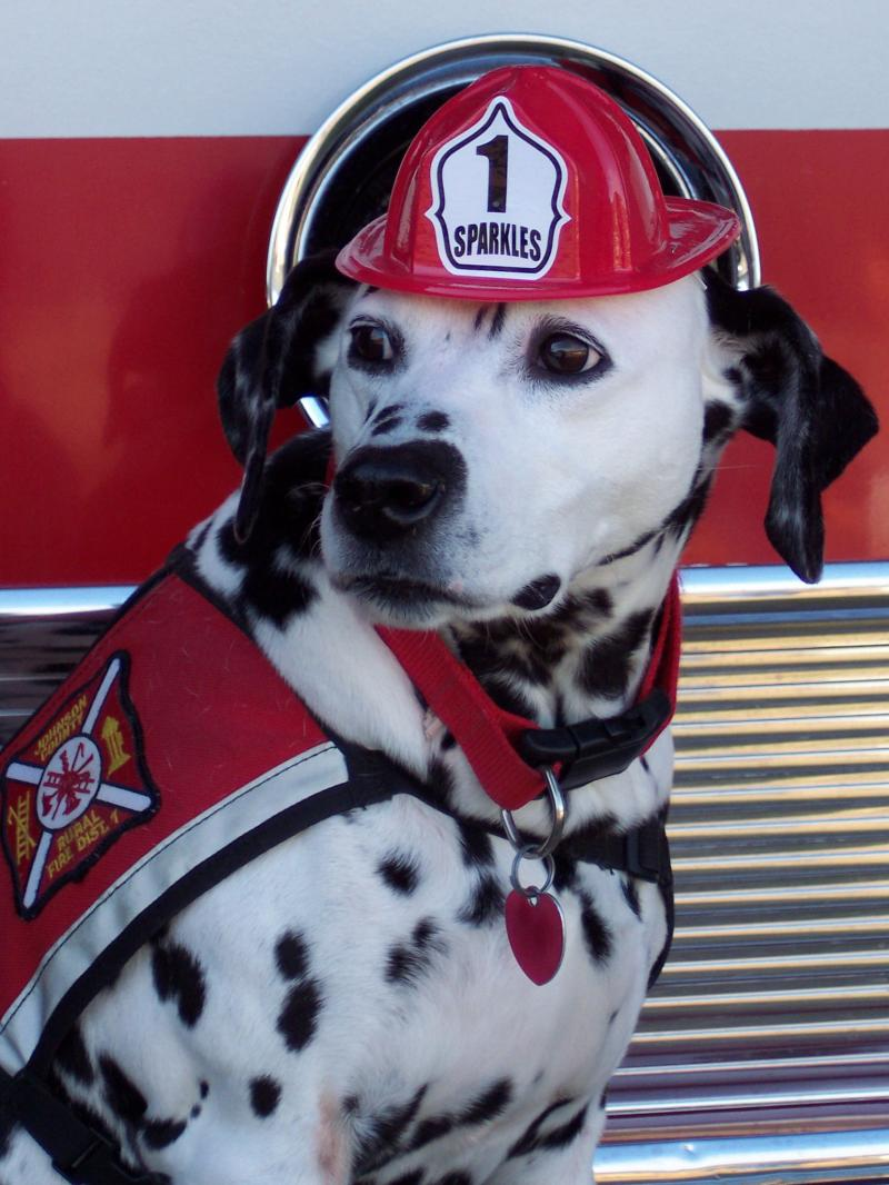 Sparkles the Fire Safety Dog, a dalmatian rescued from a home with 62 other dogs, helps teach children and their caregivers about fire safety. Sparkles has been credited with helping save the lives of two families and has appeared on PBS KIDS Sprout and FOX and Friends. Sparkles the Fire Safety Dog has her own website to help spread the fire safety message